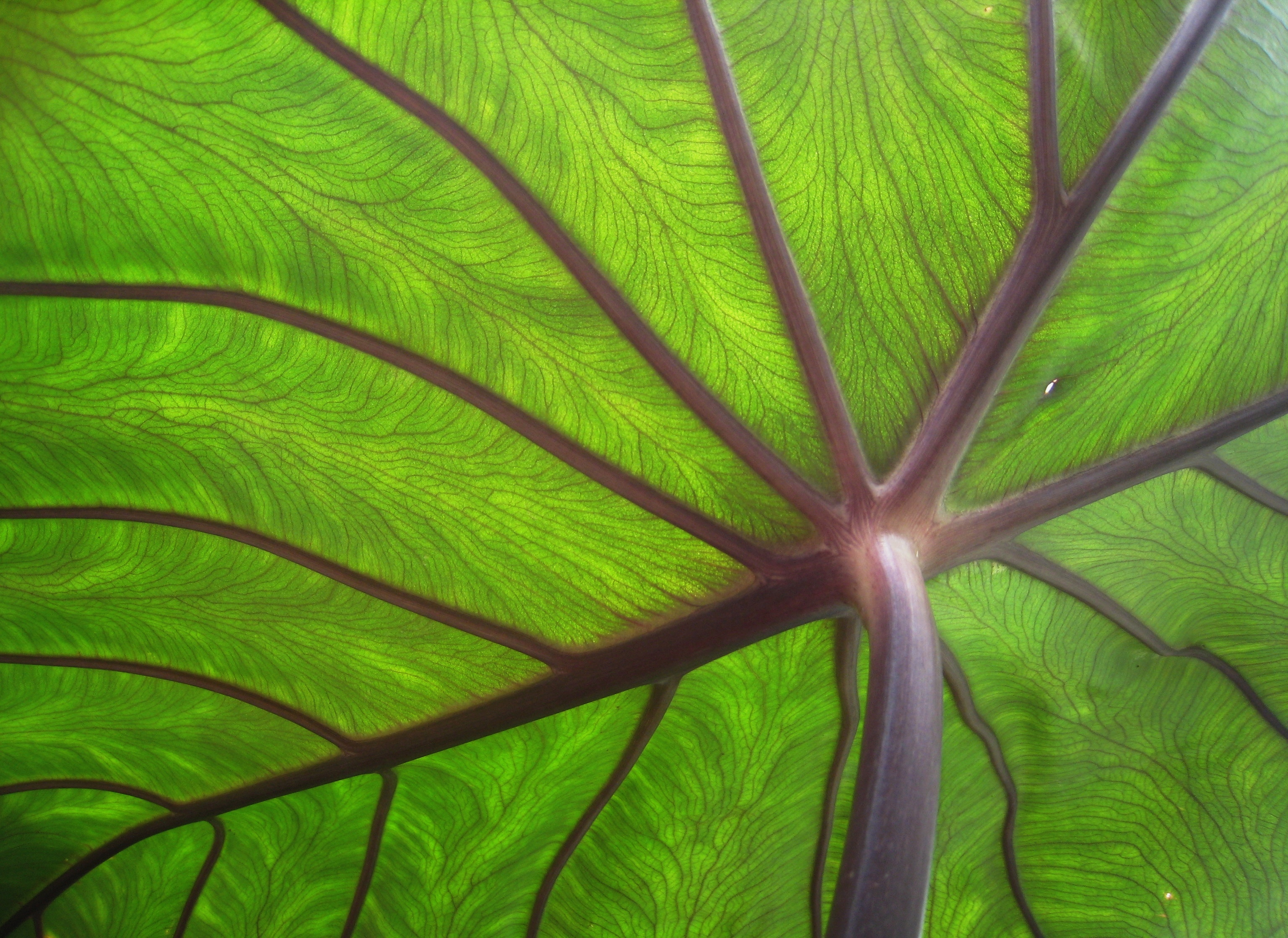 Underside of taro leaf (Colocasia esculenta), backlit by direct sunlight. Growing in a backyard in Auckland, New Zealand.